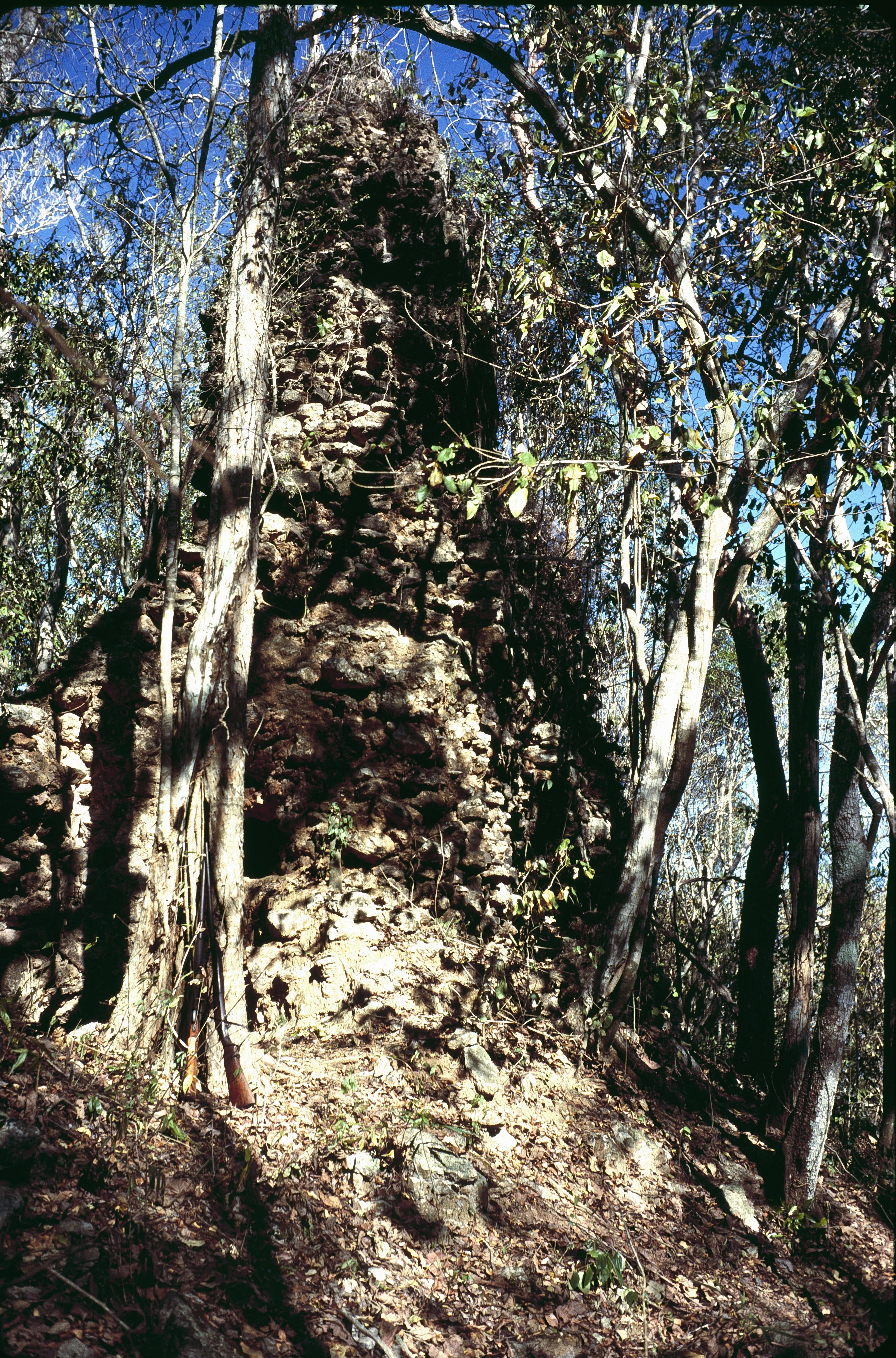 Huntichmul II, Campeche, Mexico: Building from the side